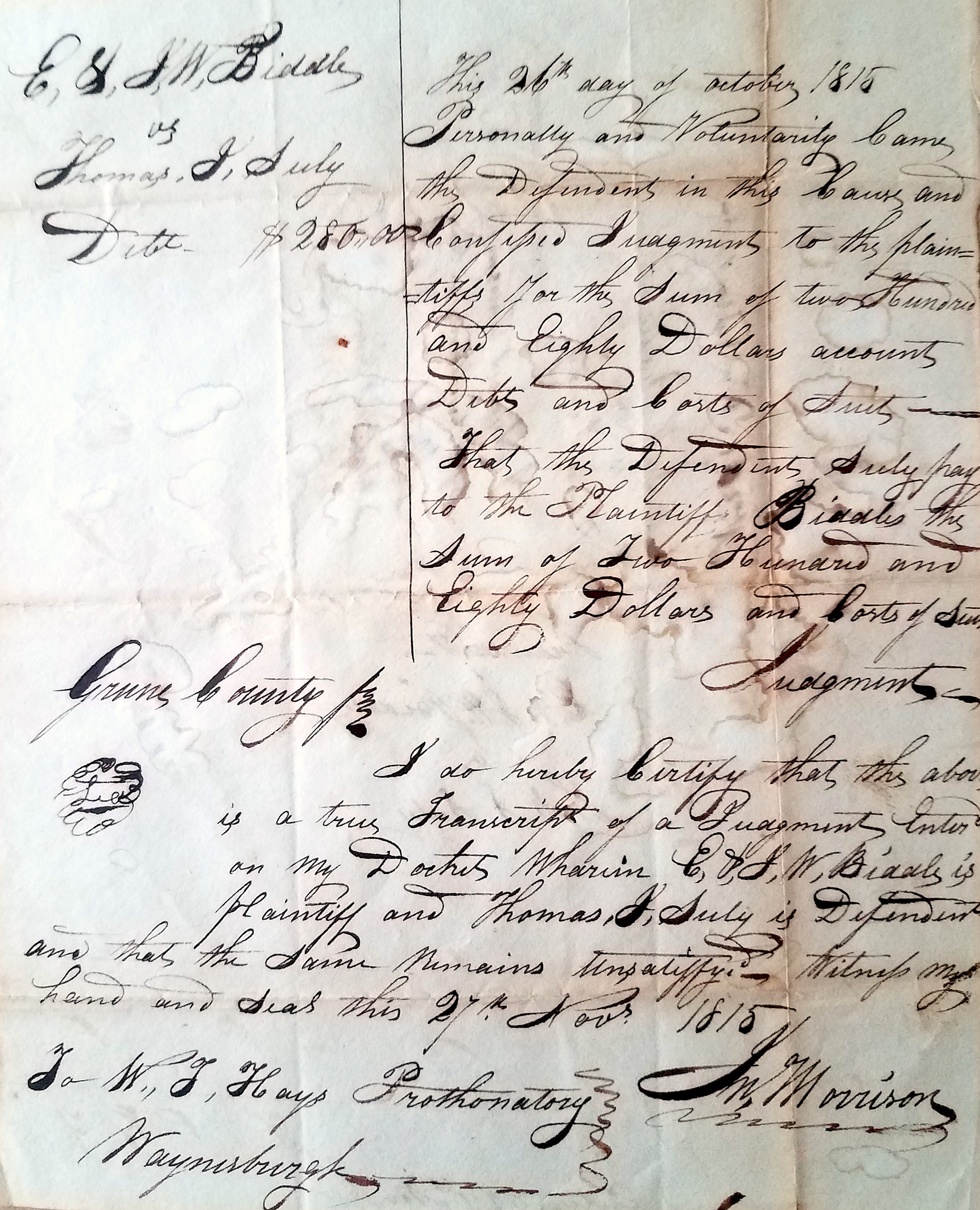 Hand-written Judgment of Debt, Greene County, Pennsylvania, 1815